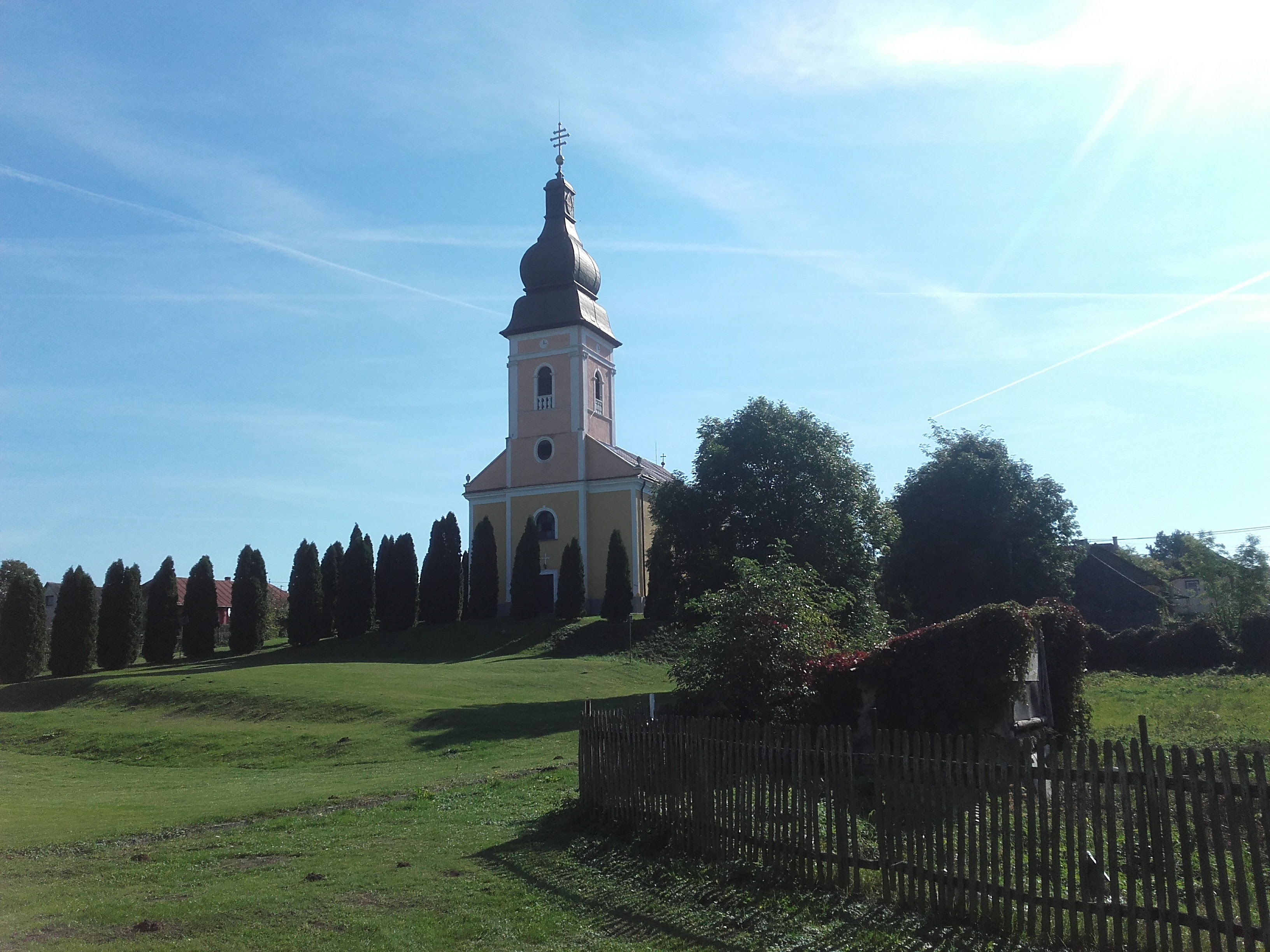 The late-Baroque Greek Catholic church of Baktakék, Hungary This is a photo of a monument in Hungary. Identifier: 2657